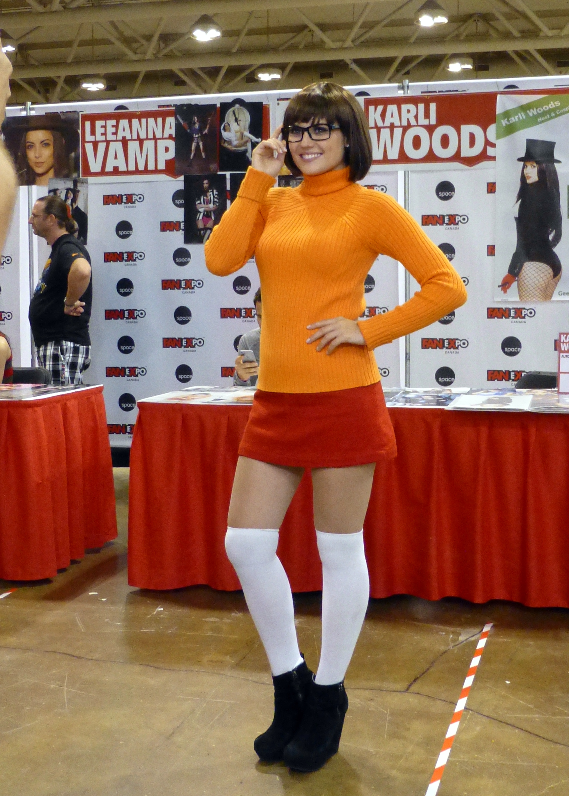 Karli Woods as Velma Cosplay at Fan Expo Canada in 2015.